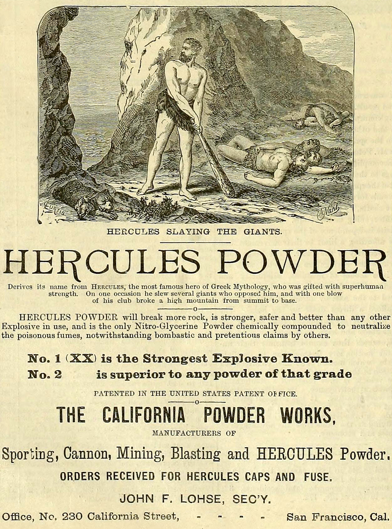 Advertisement for Hercules Powder, a brand of blasting powder made by the California Powder Works (later the Hercules Powder Company). The imaged captioned Hercules Slaying the Giants is not only mythological, but also metaphorical: at the time this ad was made, Giant Powder Company was a major rival of the Hercules brand. (image cropped and lightened)